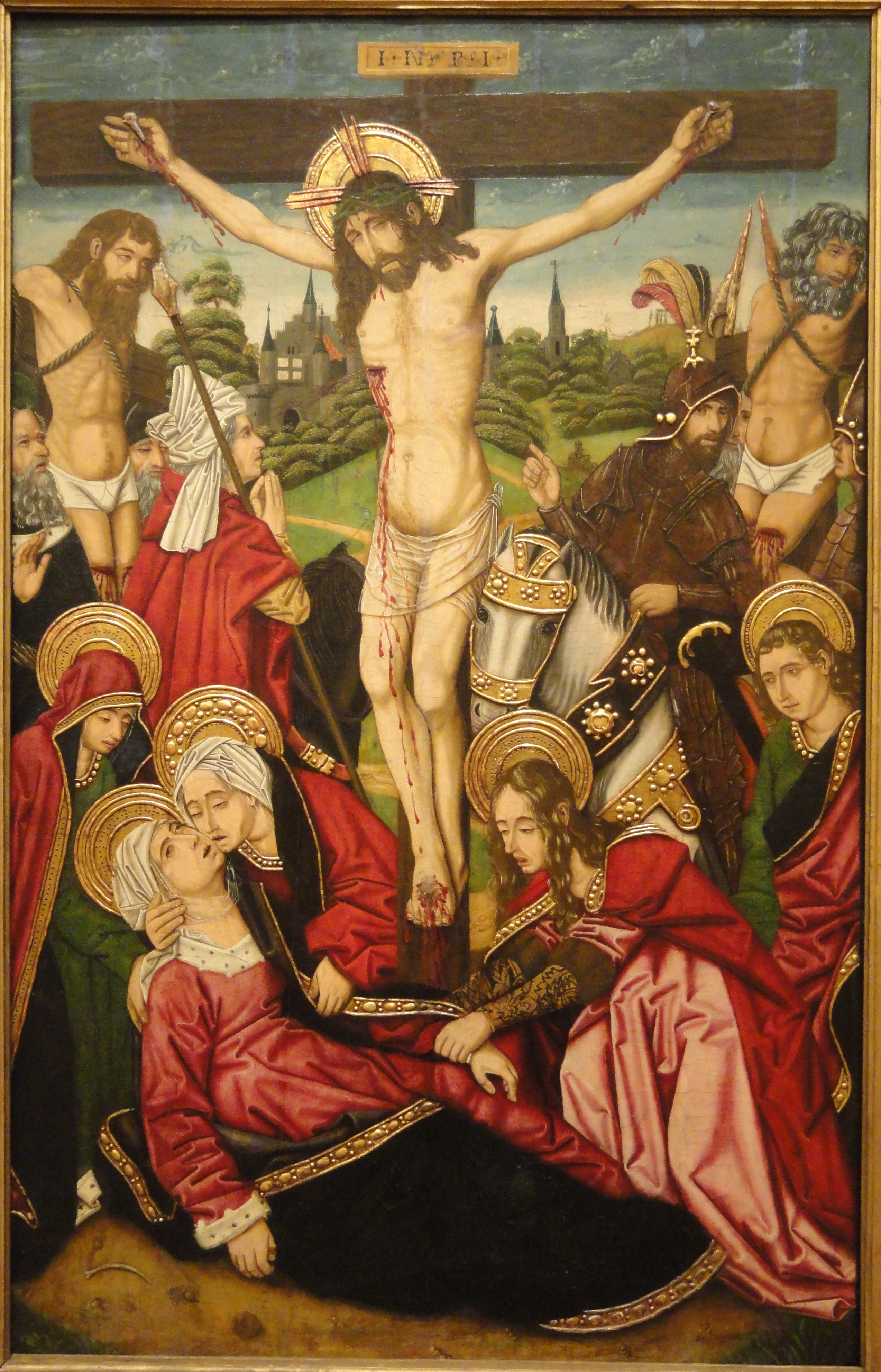 Martín Bernat, The Crucifixion, oil on panel, 147.32 x 94.93 cm. Exhibit in the San Diego Museum of Art, San Diego, California, USA. This artwork is old enough so that it is in the public domain.